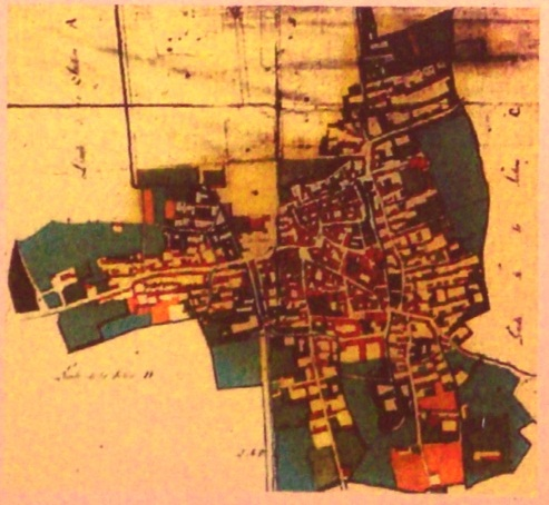 Napoleonic map of Racconigi